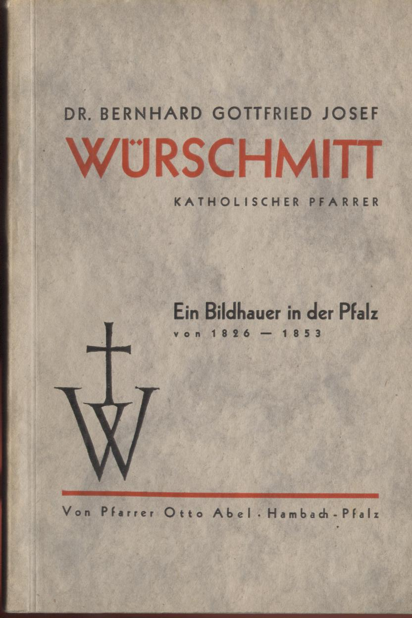 Bookcover Biographie Bernhard Würschmitt